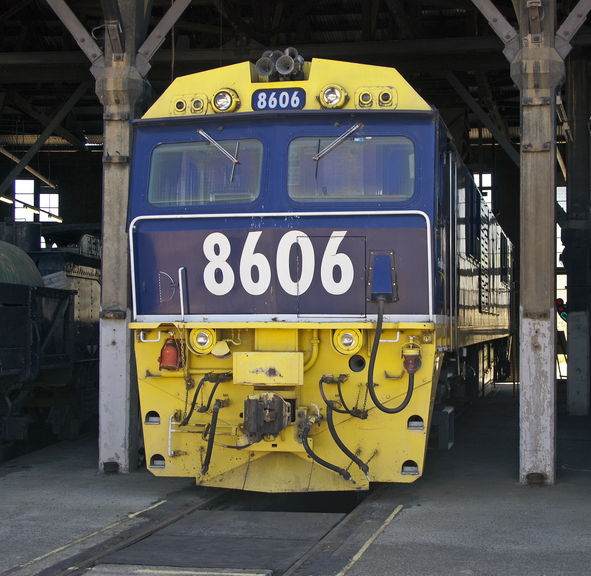 8606 in FreightCorp livery at the Junee Roundhouse Museum.